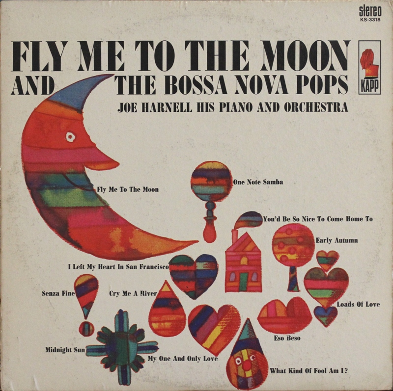 Front cover of record album "Fly Me To The Moon And The Bossa Nova Pops", Kapp Records KS-3318 released in January 1963